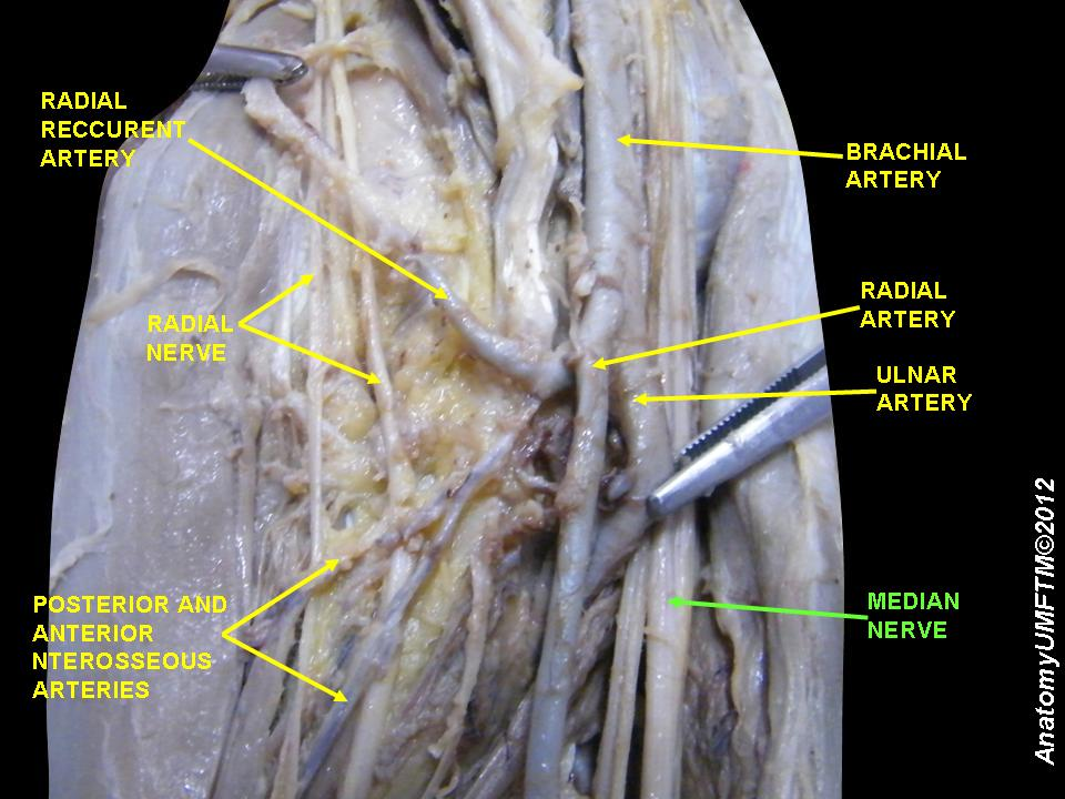 Anatomical dissections